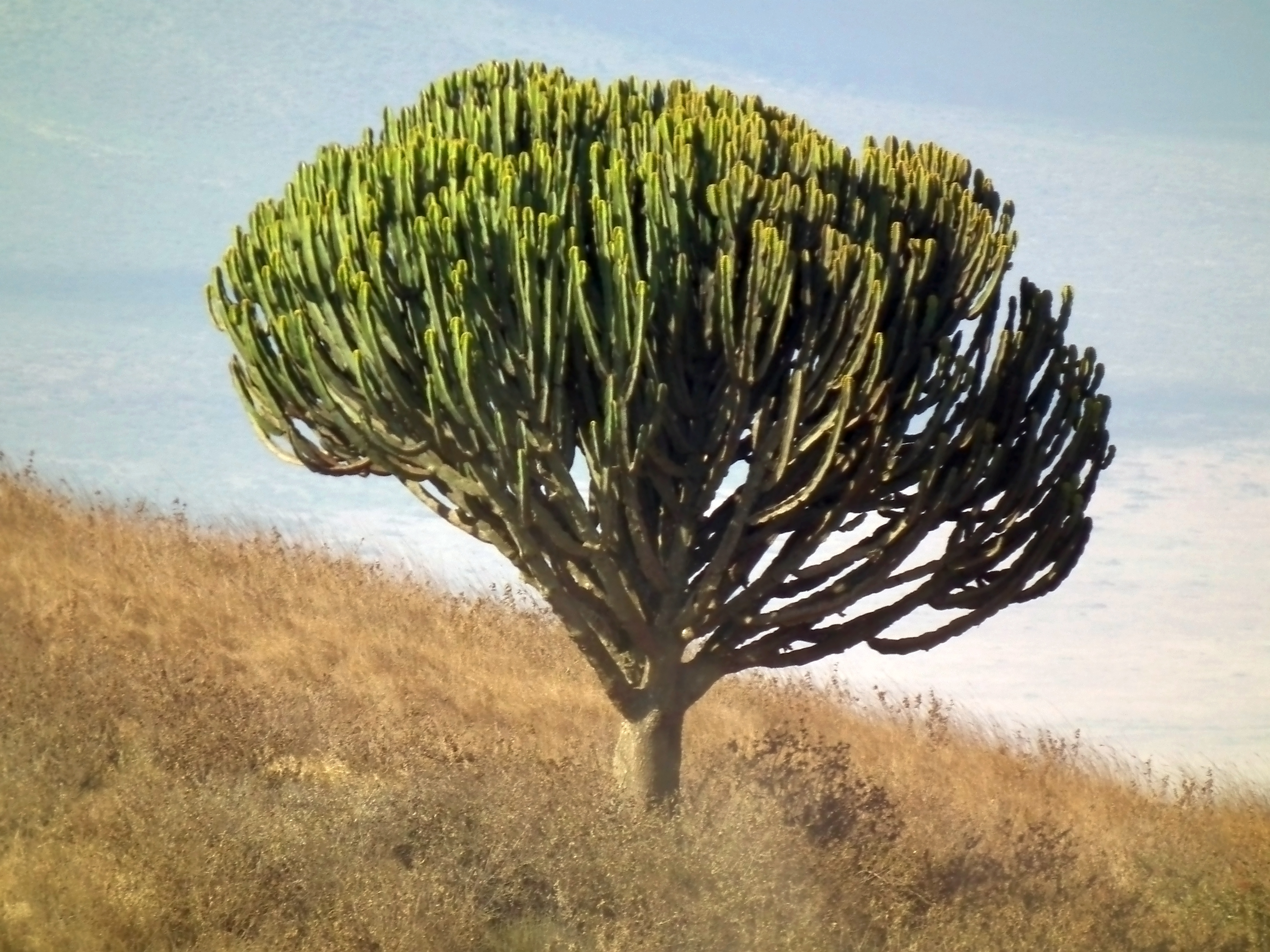 Candelabra tree (Euphorbia candelabrum), picture taken at, Northern Tanzania